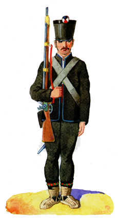 Private 1810 First Serbian Uprising